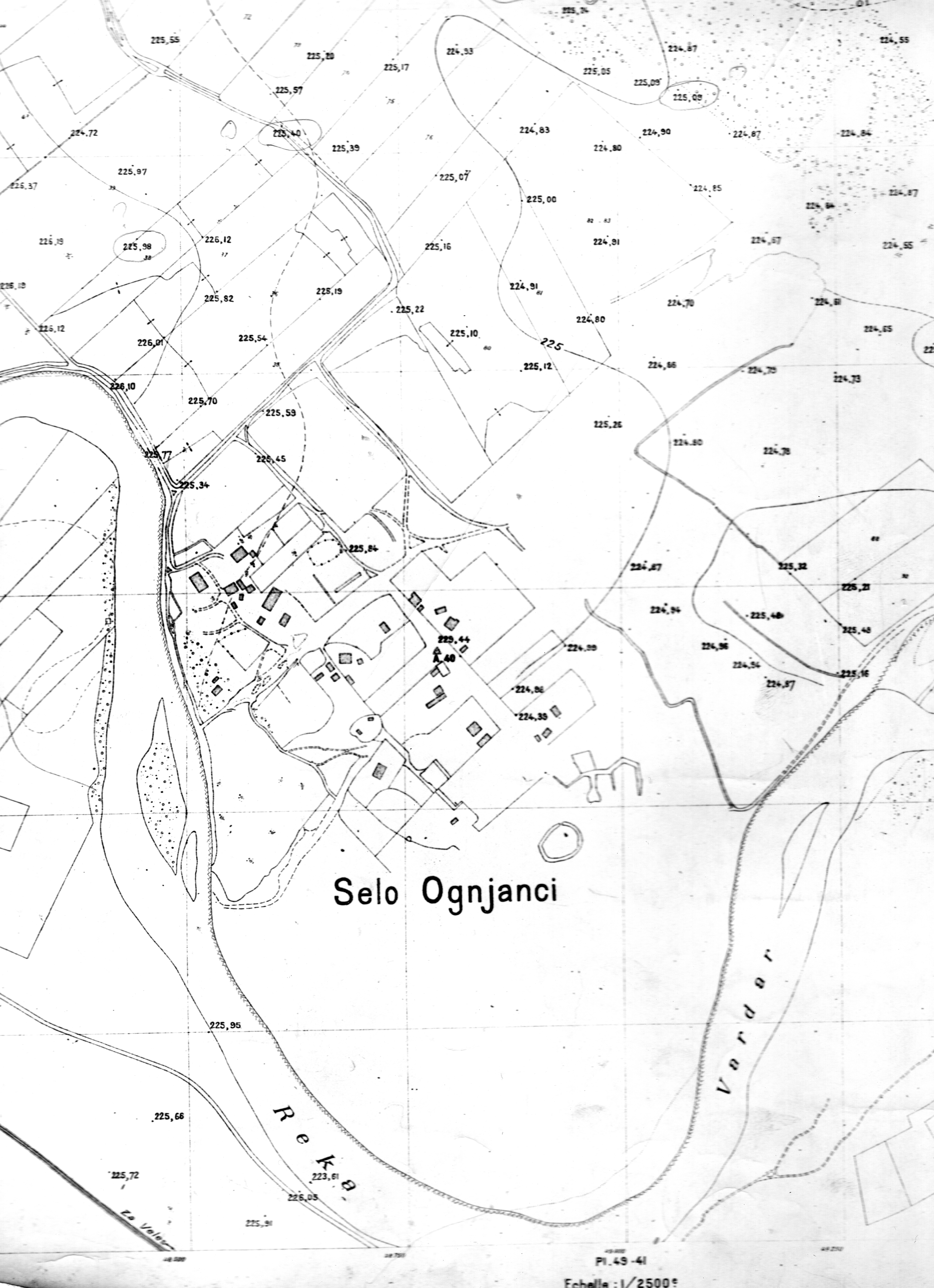 Geodesy map of Ognjanci, an aero photogrammetric map (1930s). This media file is produced by Wikipedian in Residence in Category:Wikipedian in Residence at DARM in 2017.